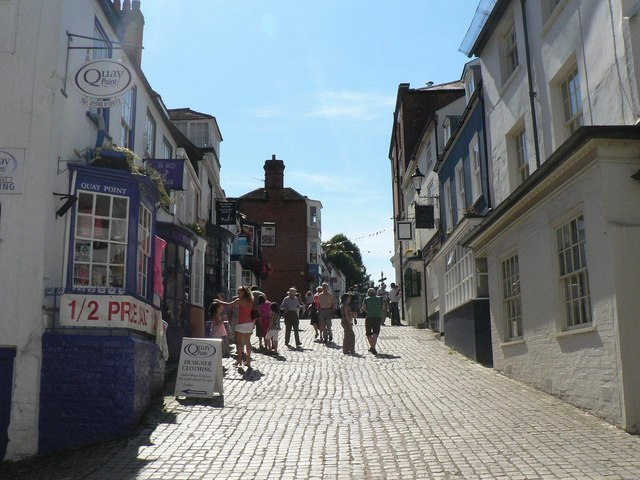 Lymington: up Quay Hill This short cobbled street links the High Street with Quay Street and the quay.